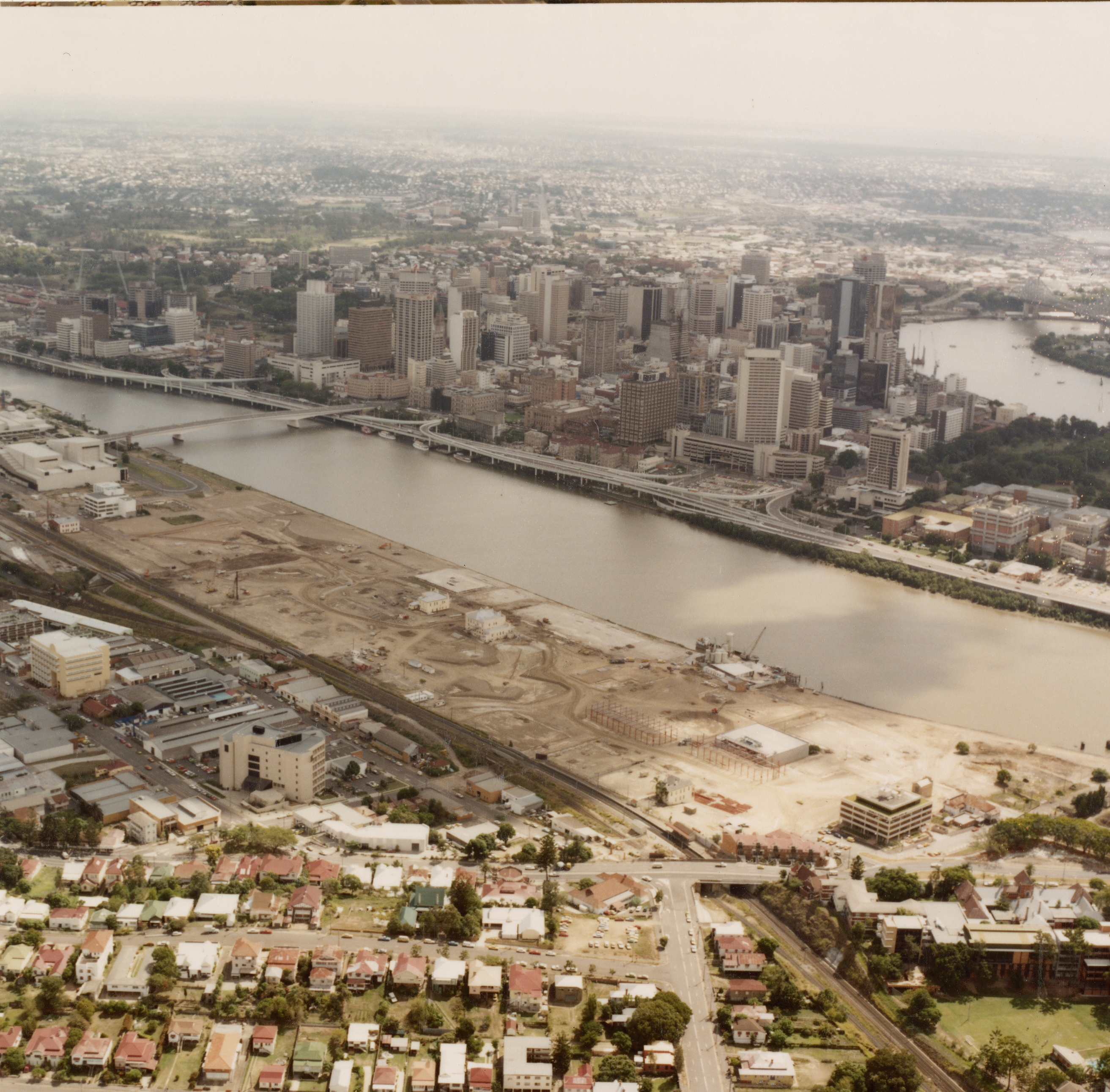 Brisbane River Front - Pre Expo 88